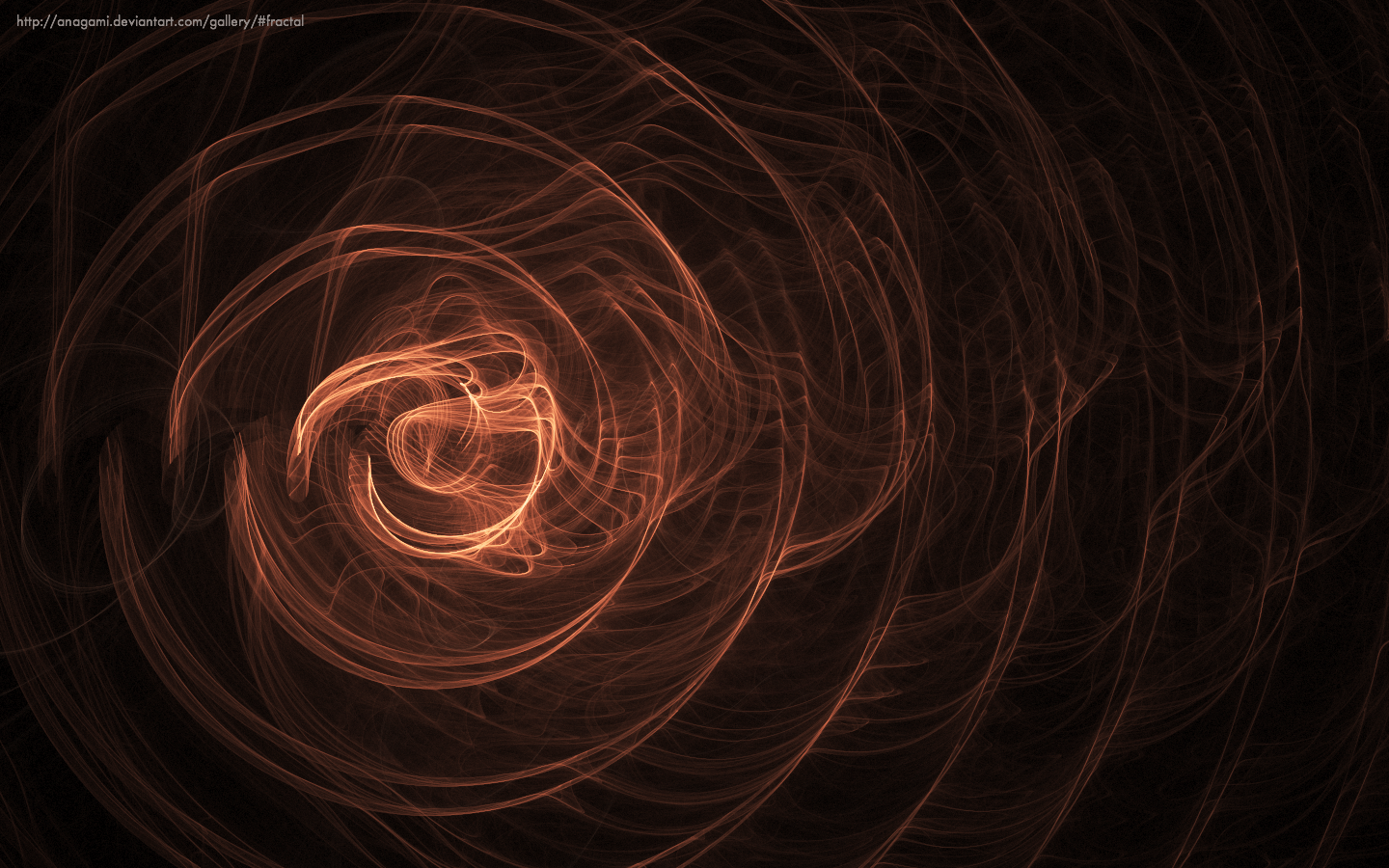 a widescreen fractal